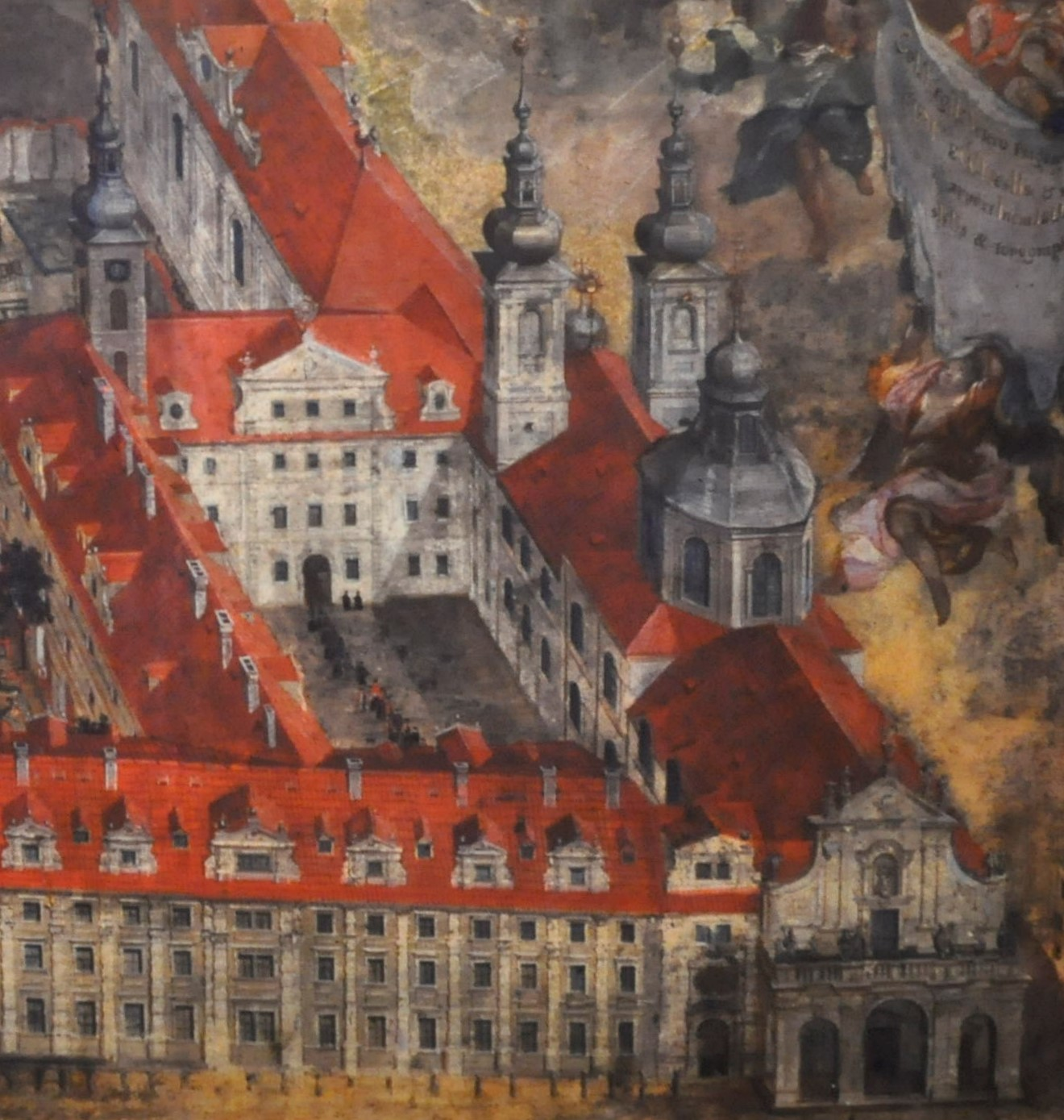 Picture of Clementinum by Johann Hiebel from 1750.